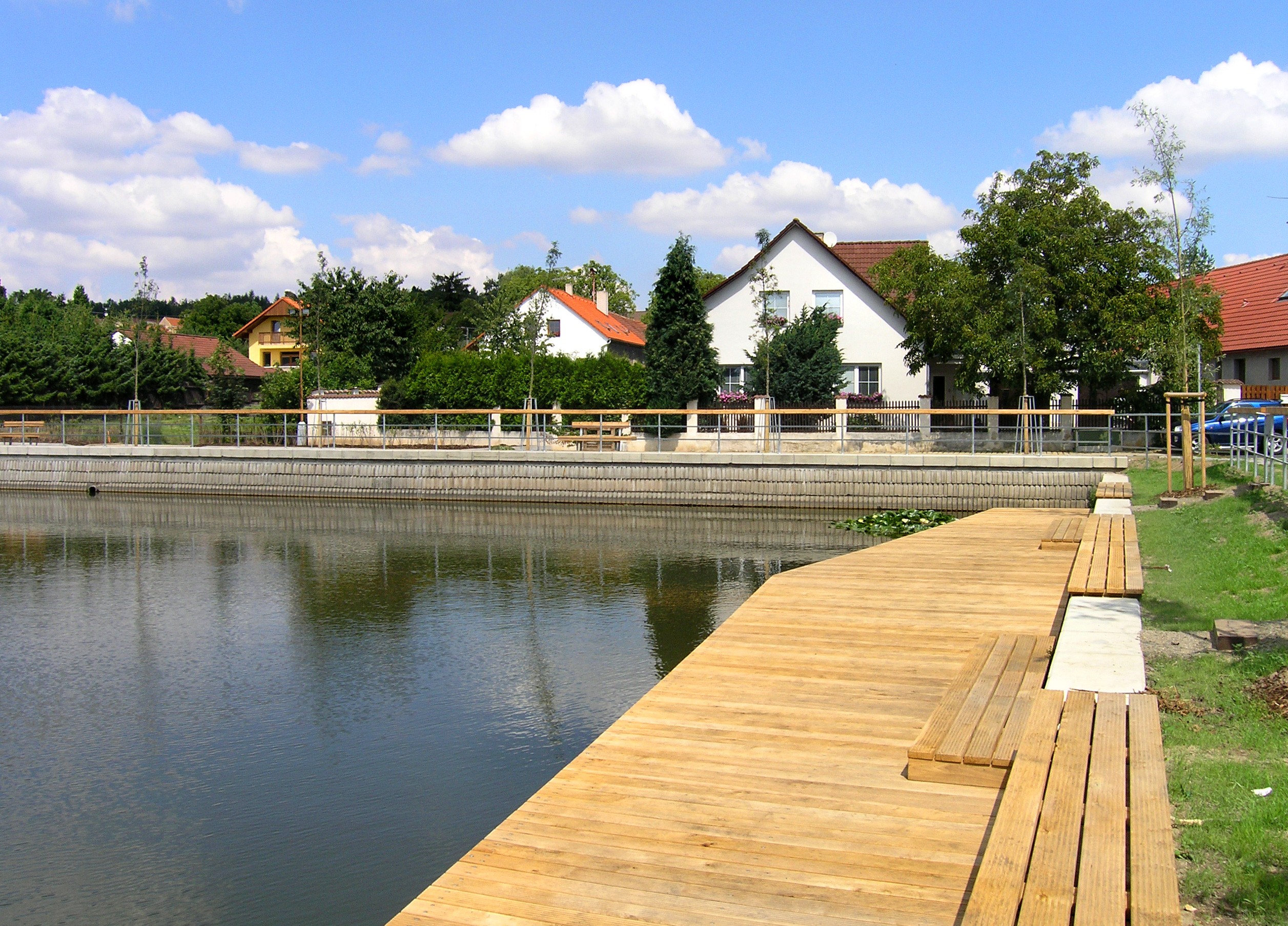 Common pond in Braškov, Czech Republic, with a lido